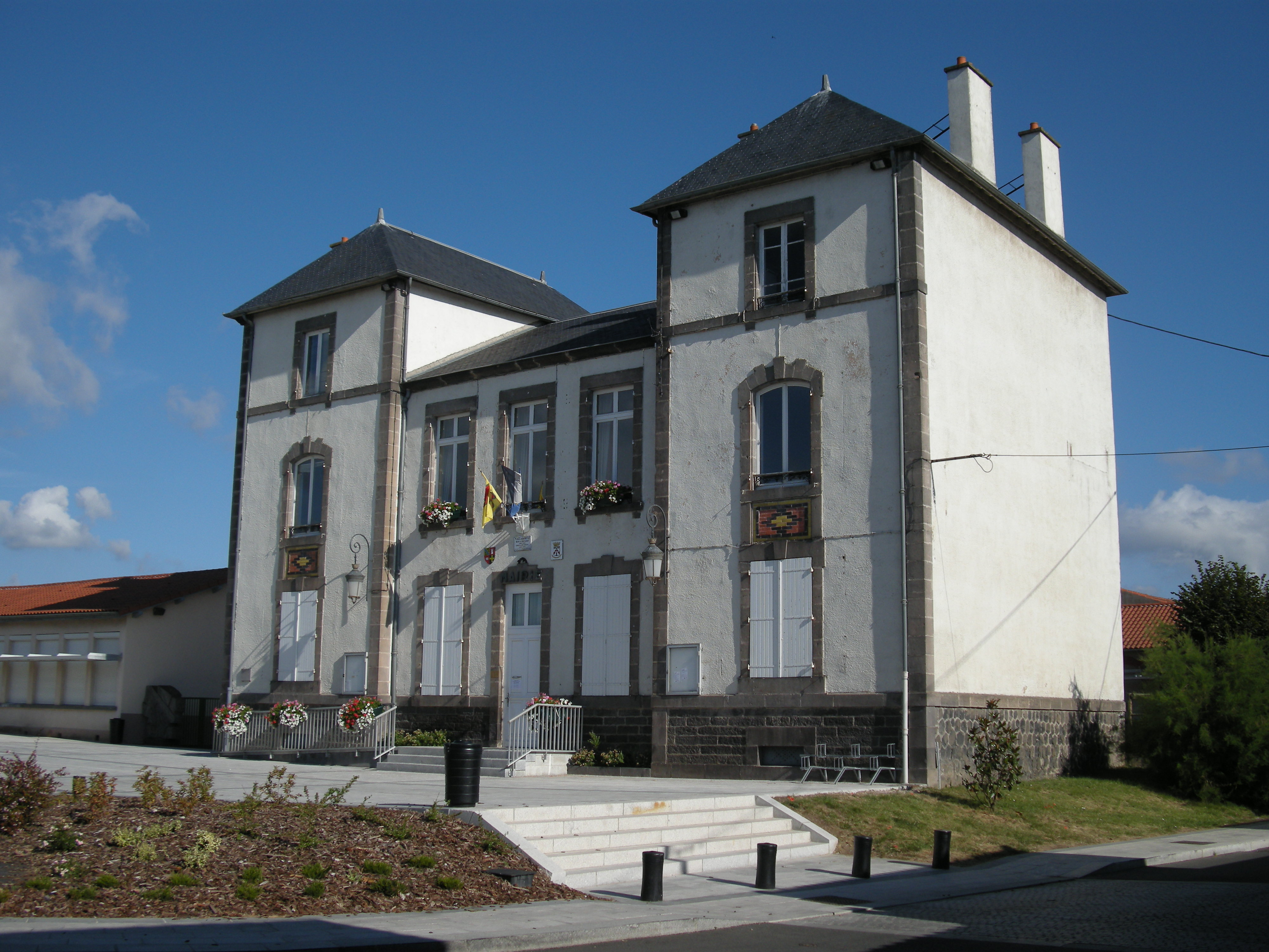 Châteaugay town hall